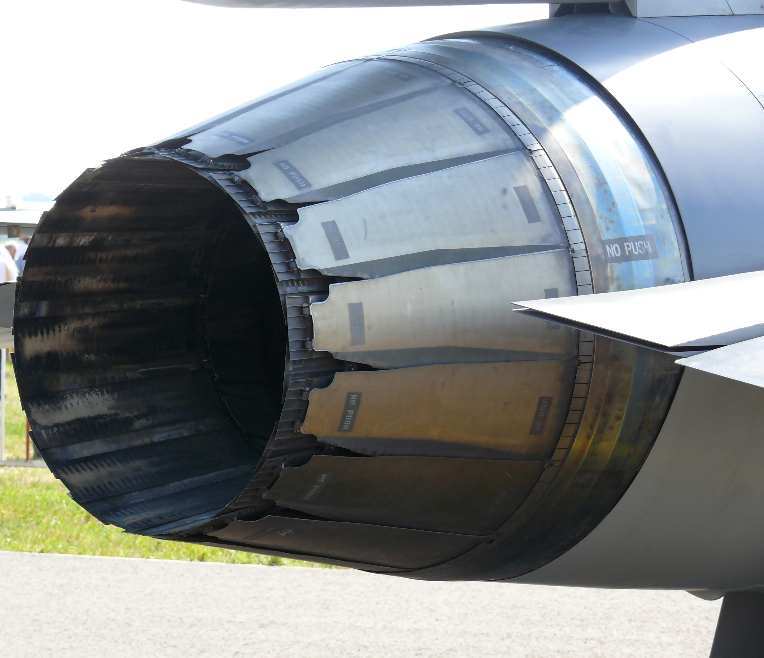 Exhaust of a General Dynamics F-16 Fighting Falcon at the Stampe Fly In 2011 (Antwerp international Airport).